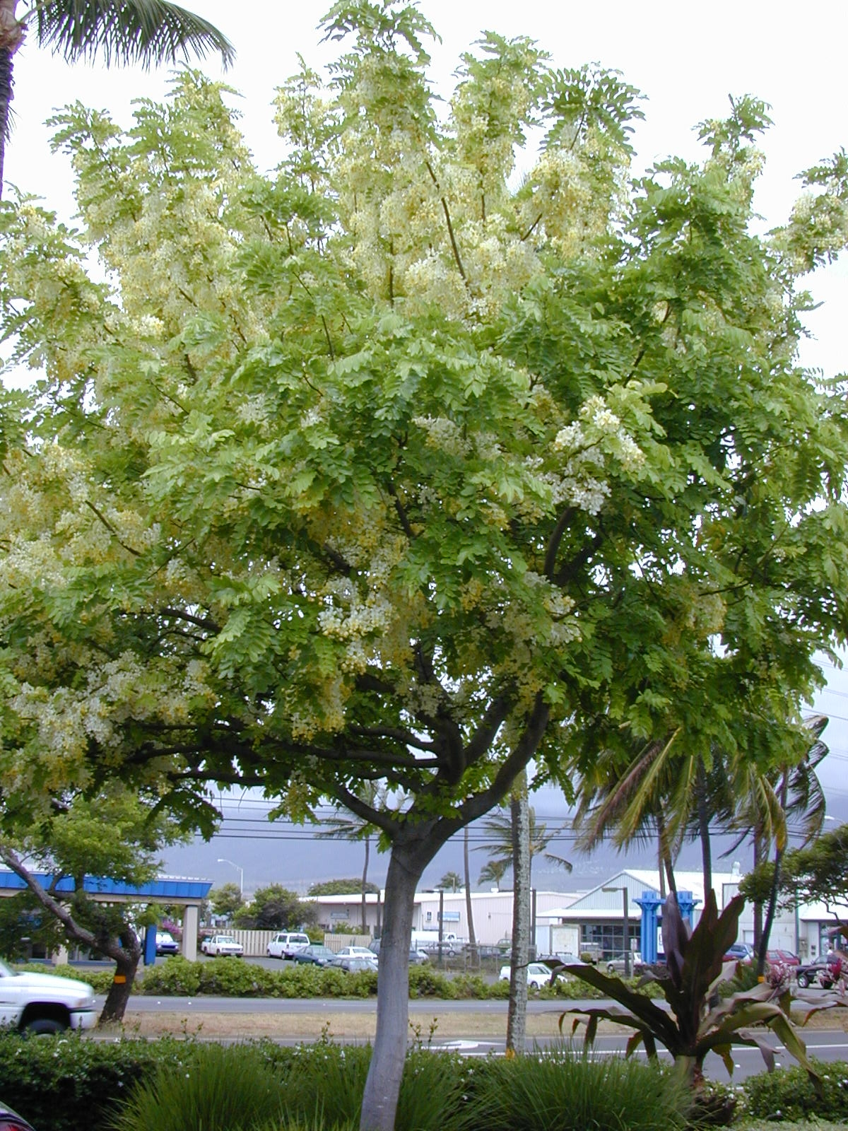 Cassia x nealiae (habit flowering). Location: Maui, Kahului